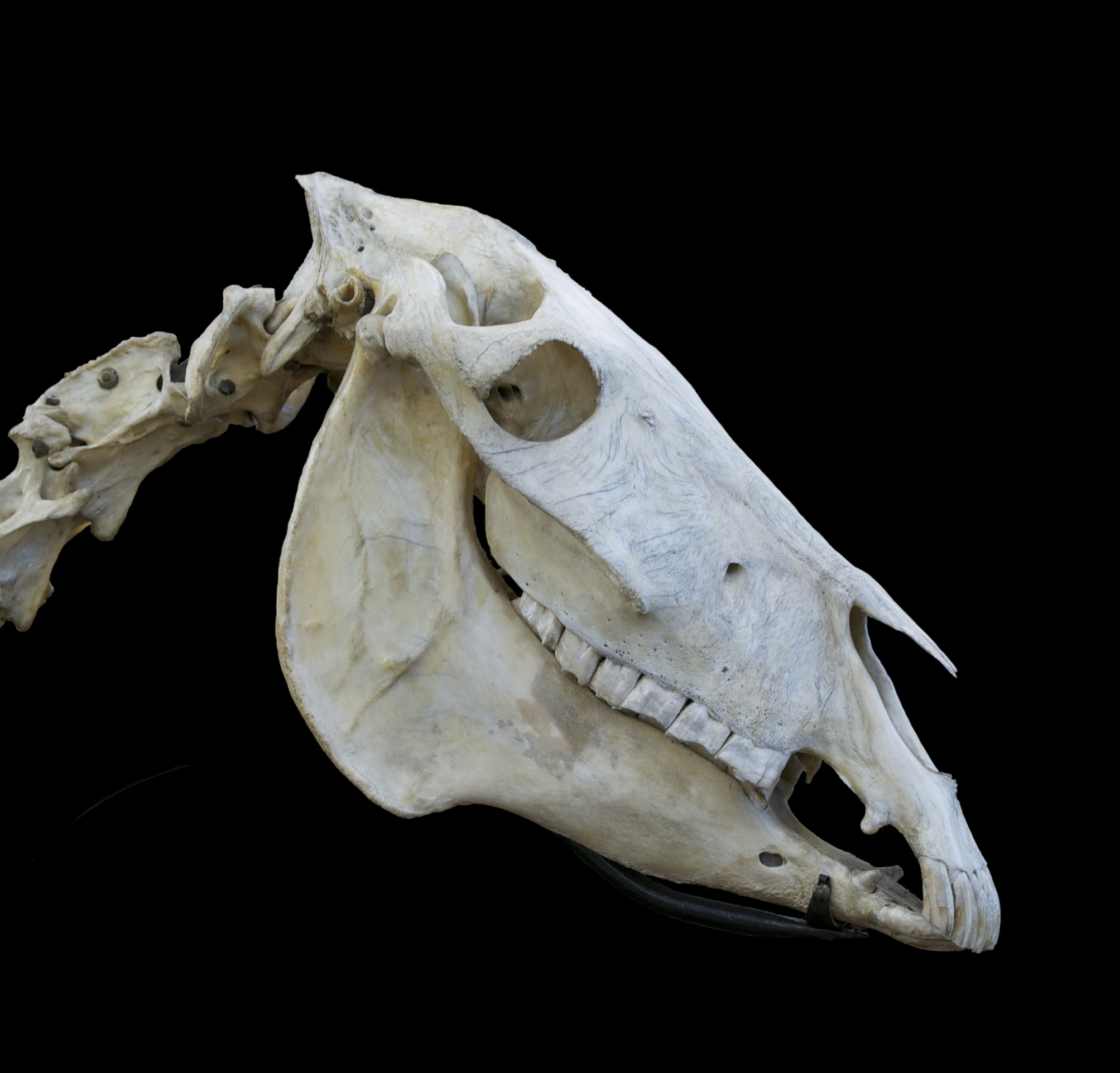 Old skull of a donkey (Equus asinus), Museum of the National Veterinarian High School of Maisons-Alfort, Val-de-Marne, France